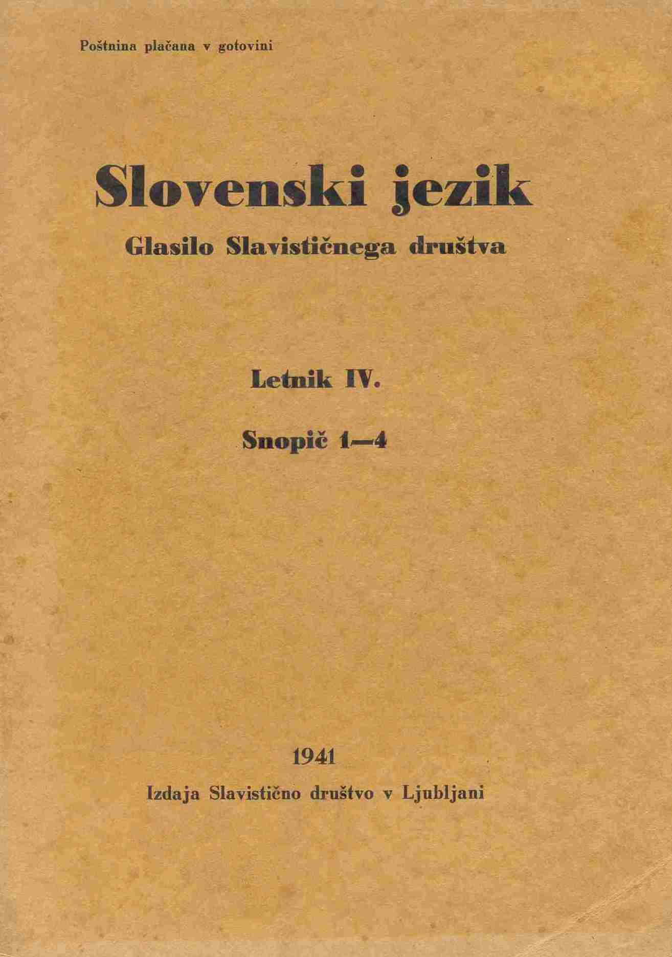 Slovenski jezik (revija)